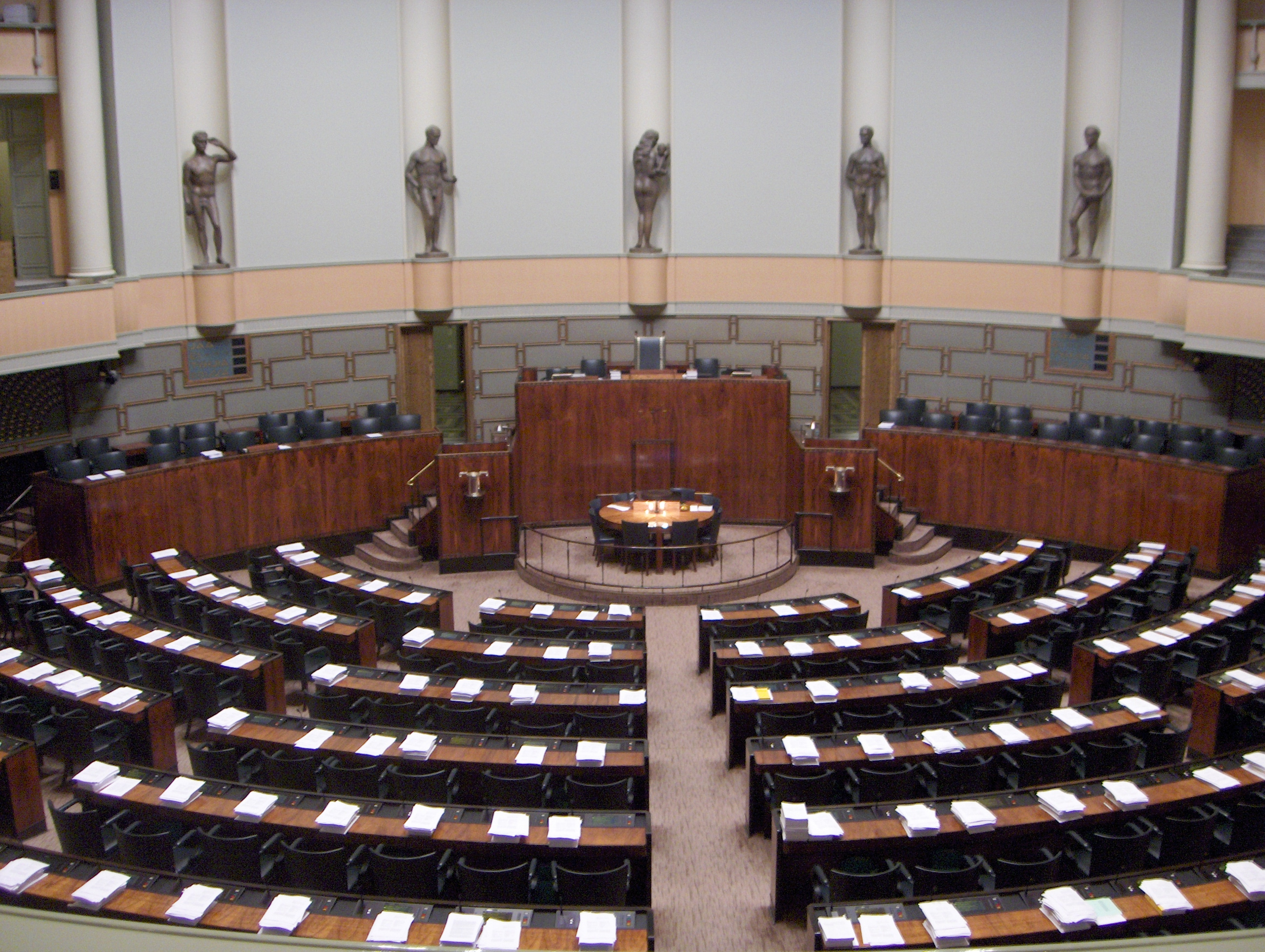 The floor of the Finnish Parliament (Eduskunta) in November 2006